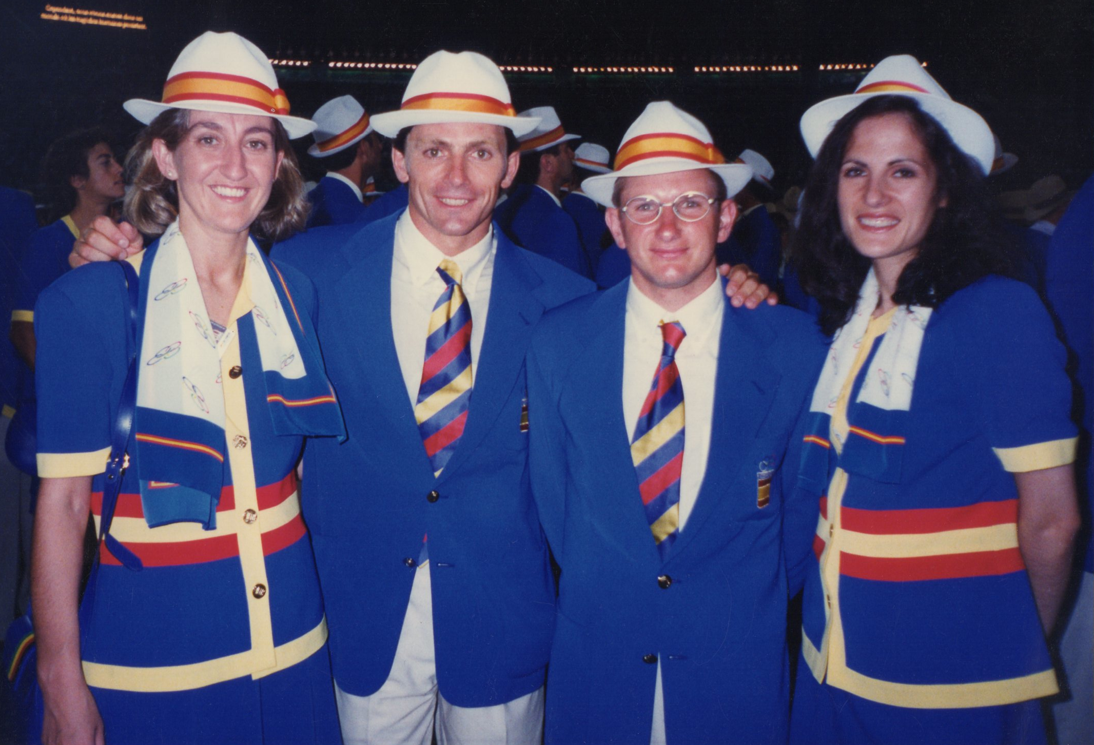 María Fernández (coach of the Spanish rhythmic gymnastics team), Xabier Etxaniz, Toni Herreros (canoeist) and Marisa Mateo (coreographee of the Spanish rhythmic gymnastics team) at the 1996 Summer Olympics opening ceremony.